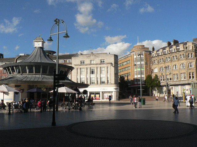 Bournemouth: The Square The Square's new pedestrianised look was officially opened by His Worshipful the Mayor, Councillor Jim Courtney, on a very wet and windy 29 February 2000. Its previous look is discussed here: 480648, and the face of the clock in that picture was used for the new camera obscura shown above.